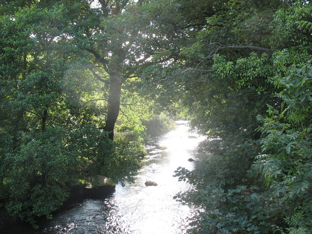 Afon Gwyrfai from Pont Cyrnant. This is view downstream from the narrow Cyrnant Bridge.